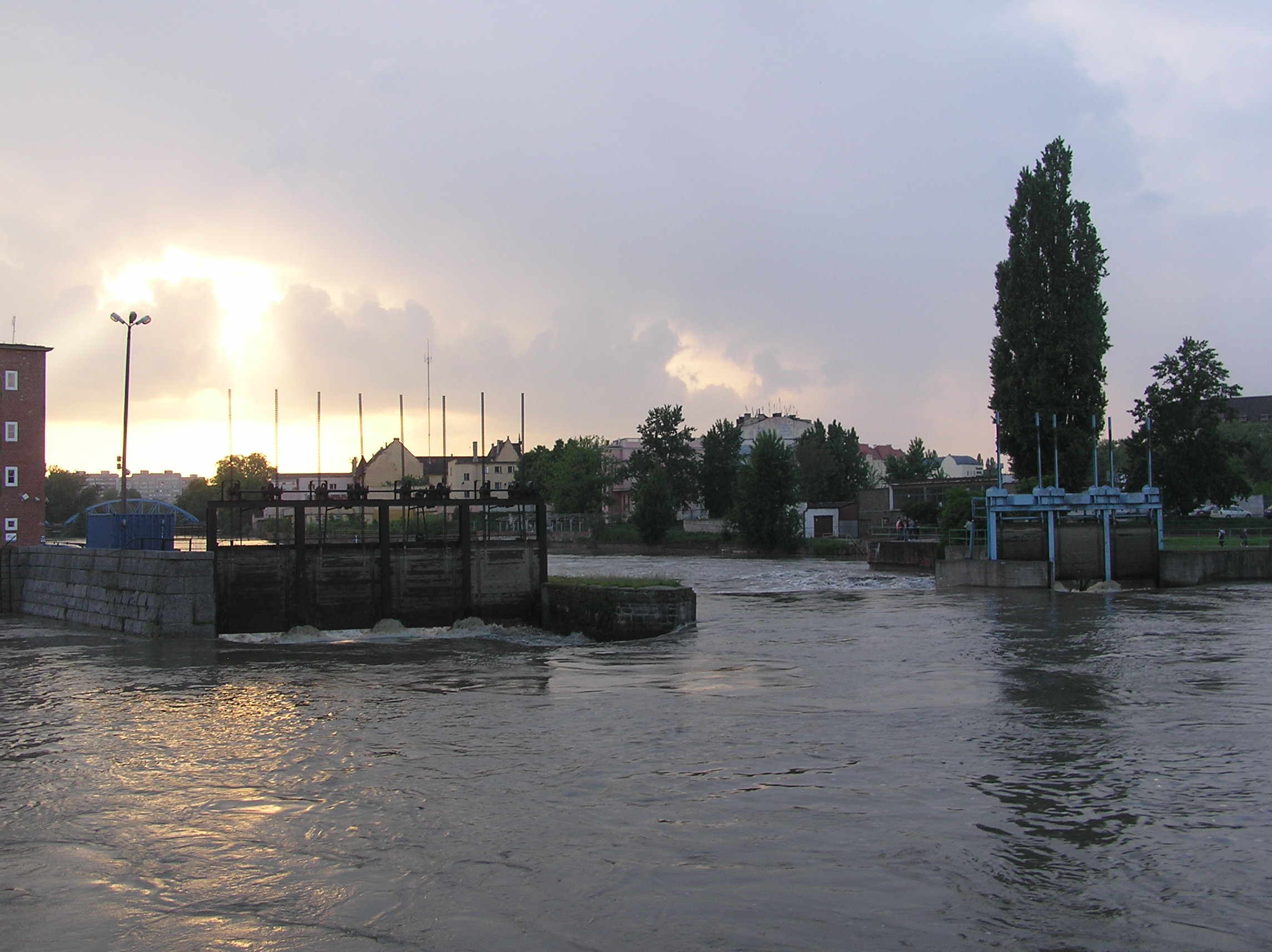 Wrocław, weir of southern hydroelectric plant in Wrocław